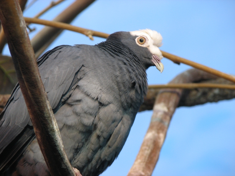 A juvenile white-crowned pigeon.